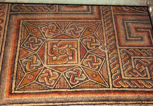 Mosaic floor from the Church of the Nativity, Palestine